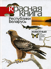 Animal's red book of Republic of Belarus